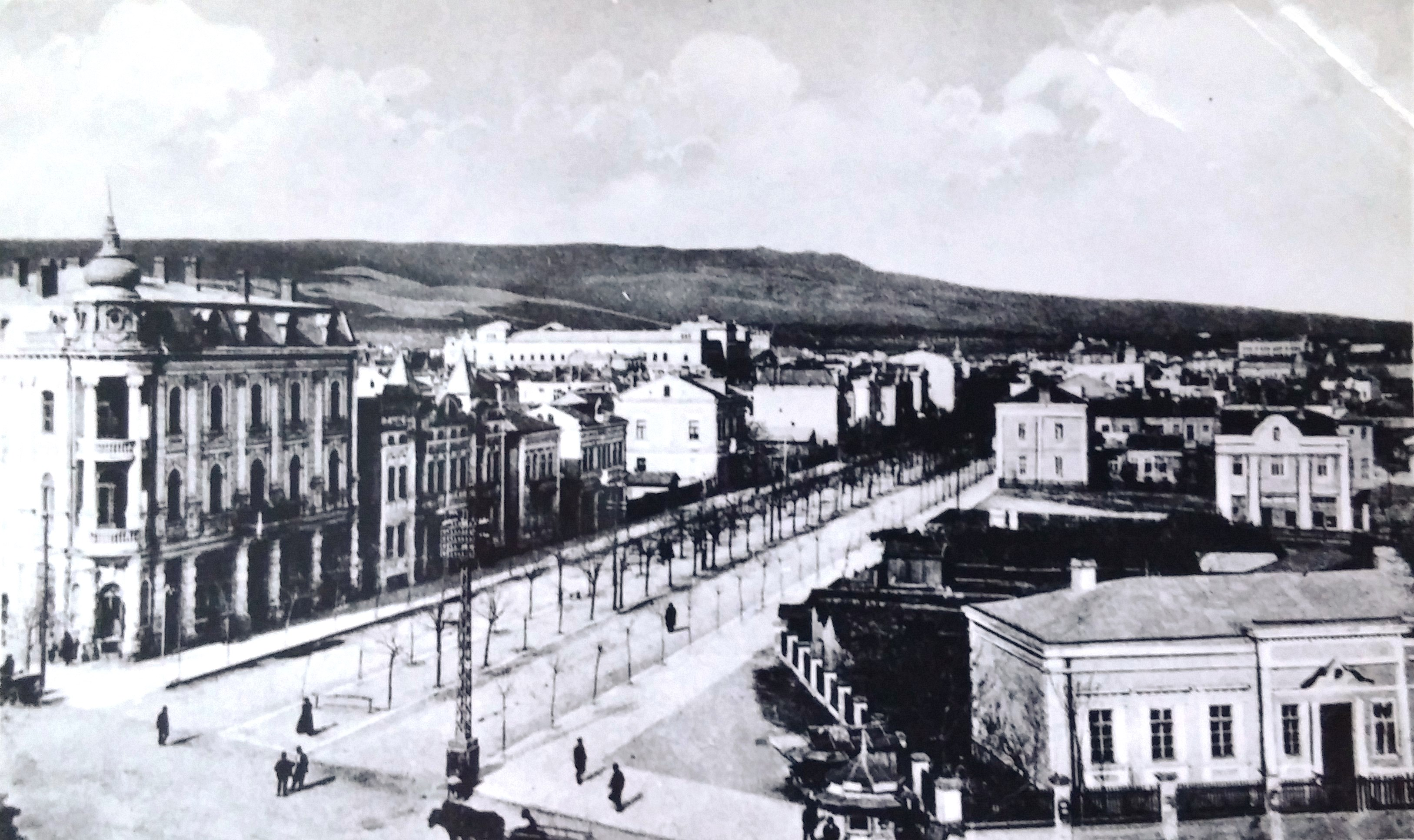 Varna. "Marie Louise" boulevard with a view of the Officer's club